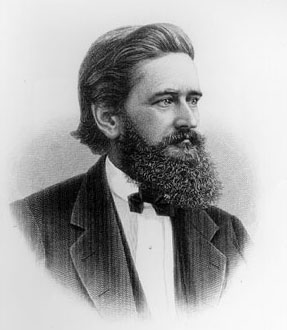 Louis Prang (1824-1909)